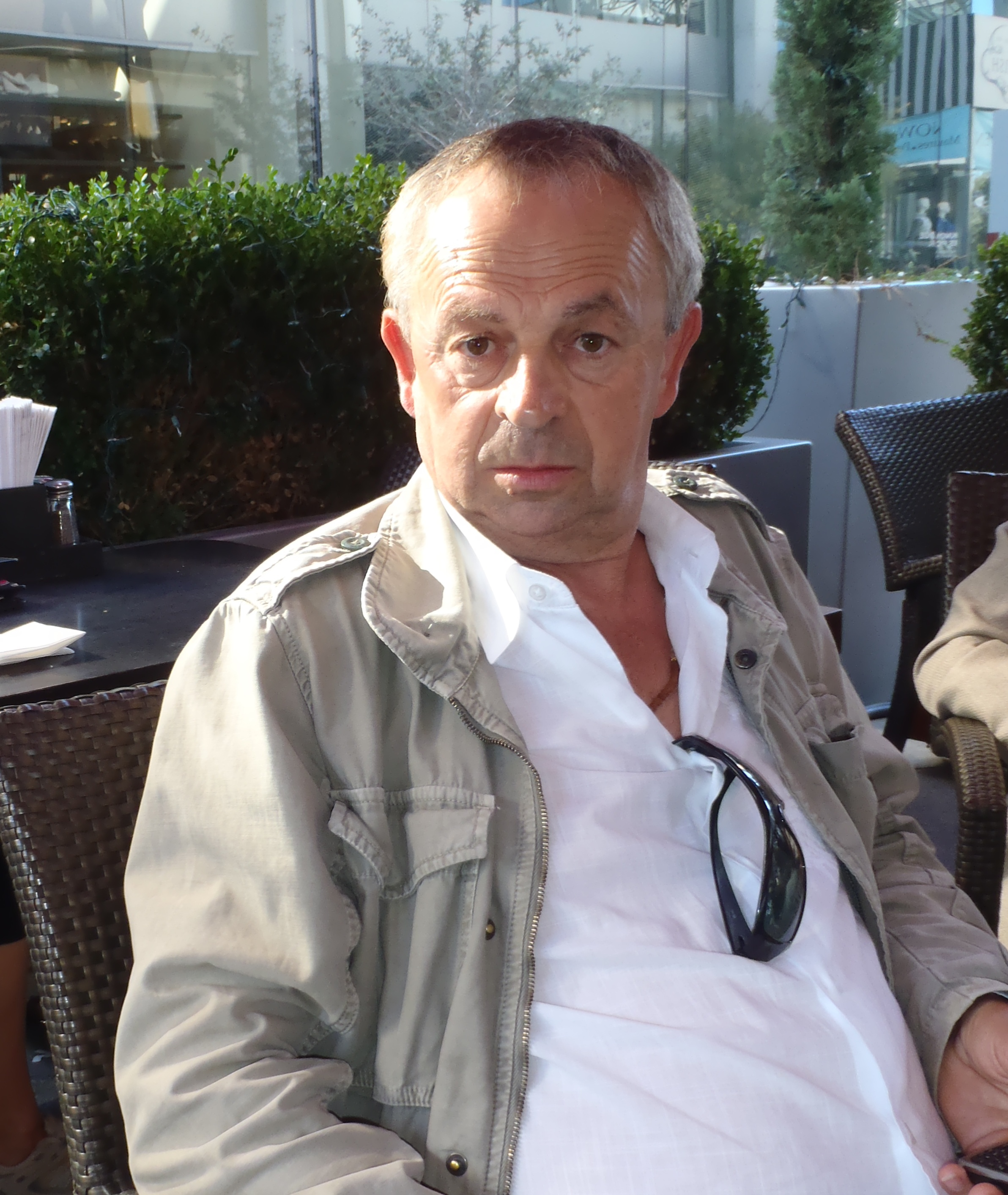 Rafael Primorac (producer) at Cafe Primo on Sunset Blvd.